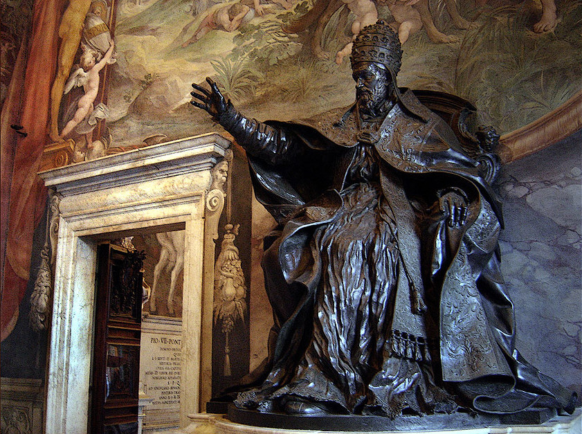 between 1645–1649.